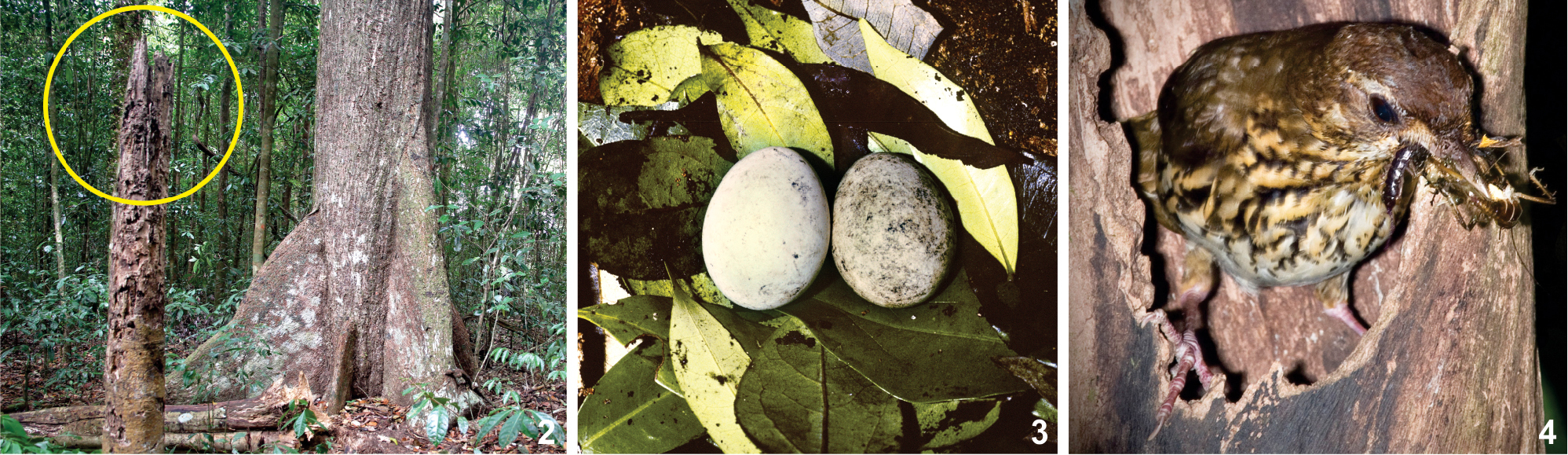 (2) Detail of C. campanisona nest location; (3) nest and eggs of C. campanisona at cavity bottom; (4) adult of C. campanisona at nest entrance carrying a large quantity of arthropods. All photos by A. Studer on March 2009.